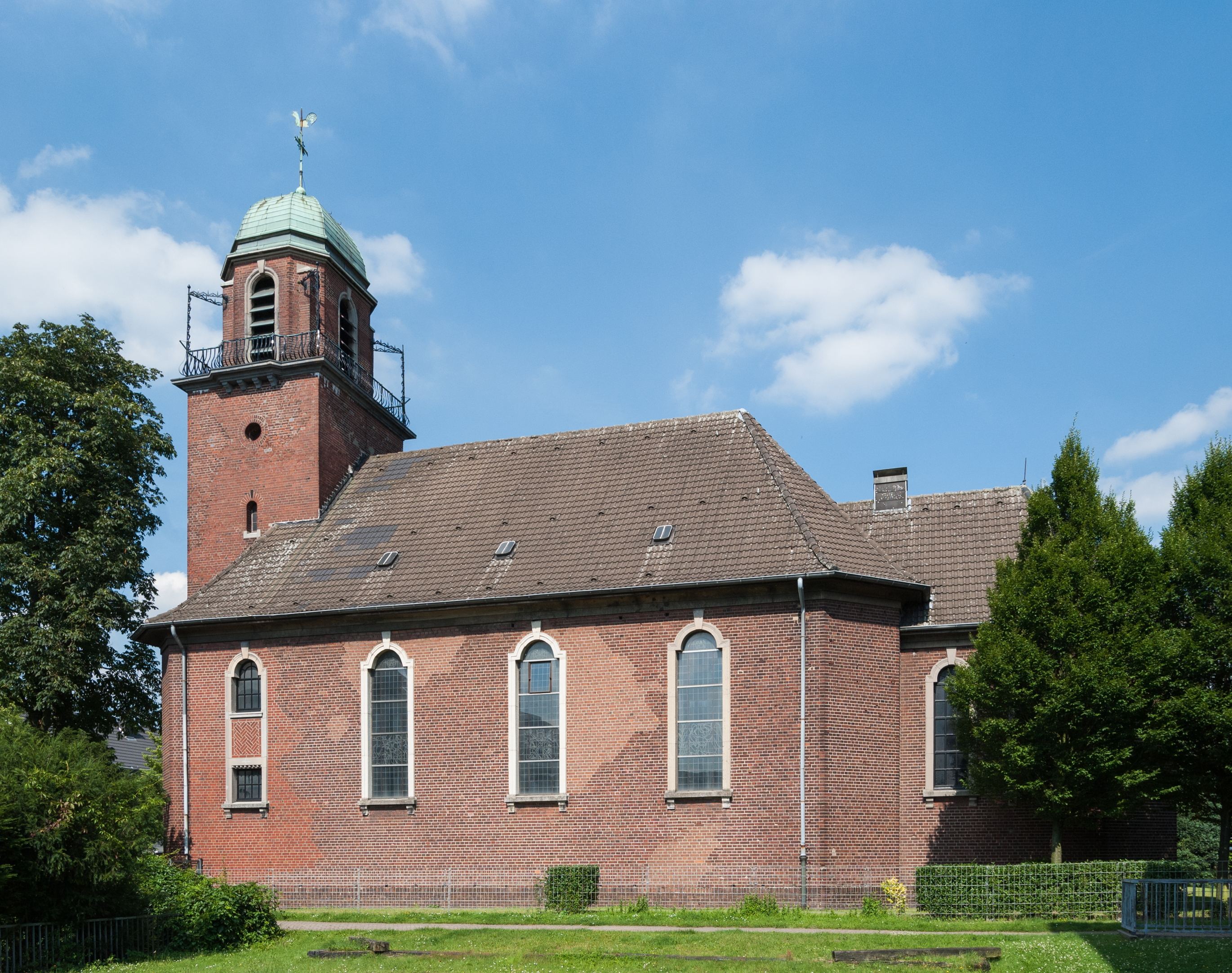 Duisburg (North Rhine-Westphalia, Germany) – borough Süd, district Serm – Catholic Church of the Sacred Heart – southwest view This photograph was taken with a Nikon D3000